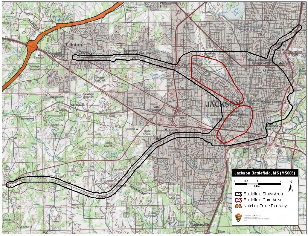 Map of battlefield study and core areas. Revisions to the Study Area include the addition of the Federal approach routes (Sherman’s and McPherson’s Corps) marching from Clinton and Mississippi Springs on the morning of battle. The Confederate retreat route along the Old Canton Road was also added. Because there was little to no fighting within the city itself, the Core Area was reduced to more accurately represent the specific locations of fighting to the northwest and southwest of Jackson.